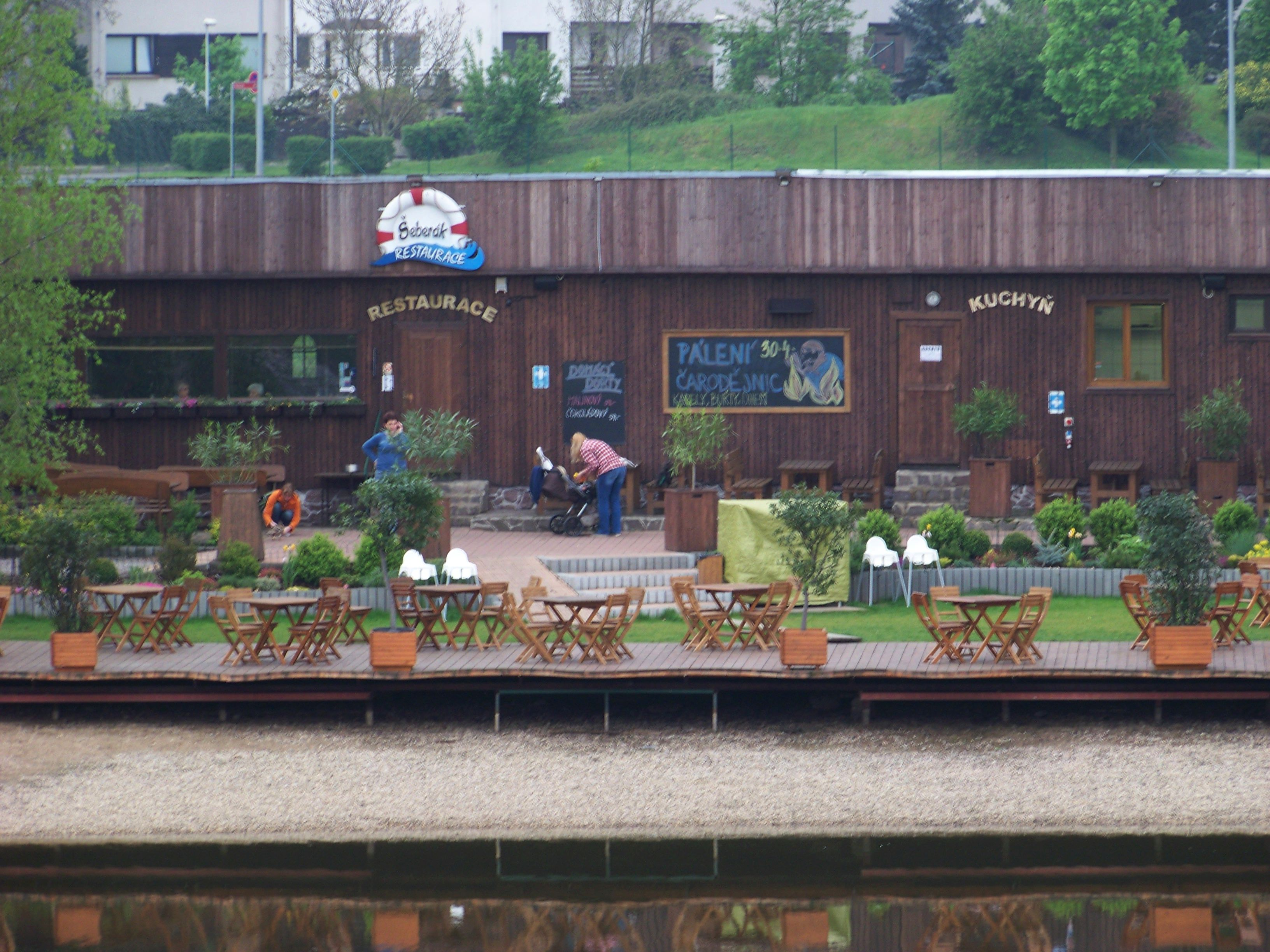 Prague-Kunratice, Czech Republic. Šeberák pond, a lido and a restaurant.